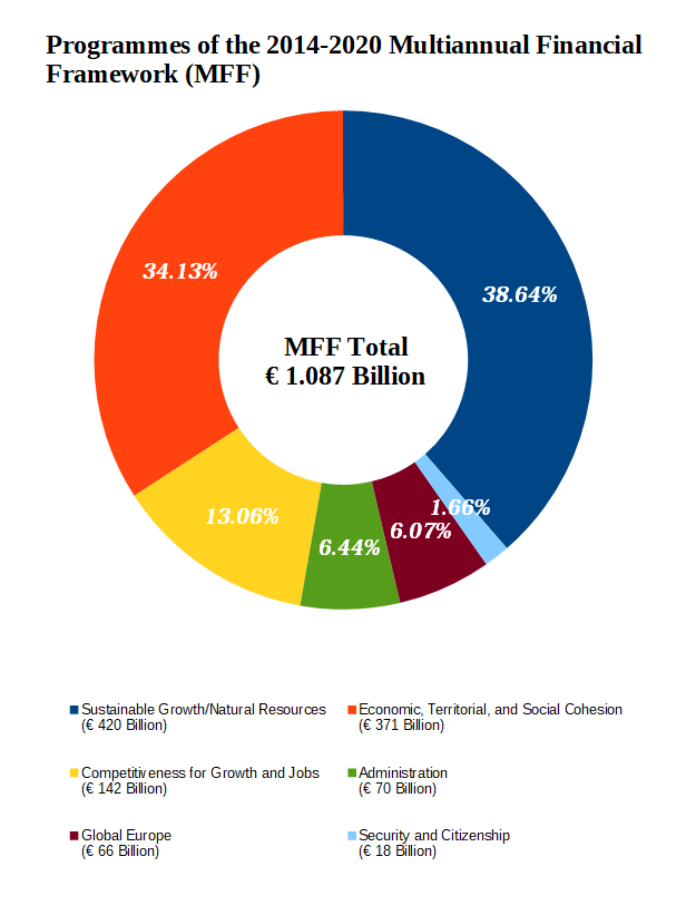 Programmes funded by the EU in billions of euros